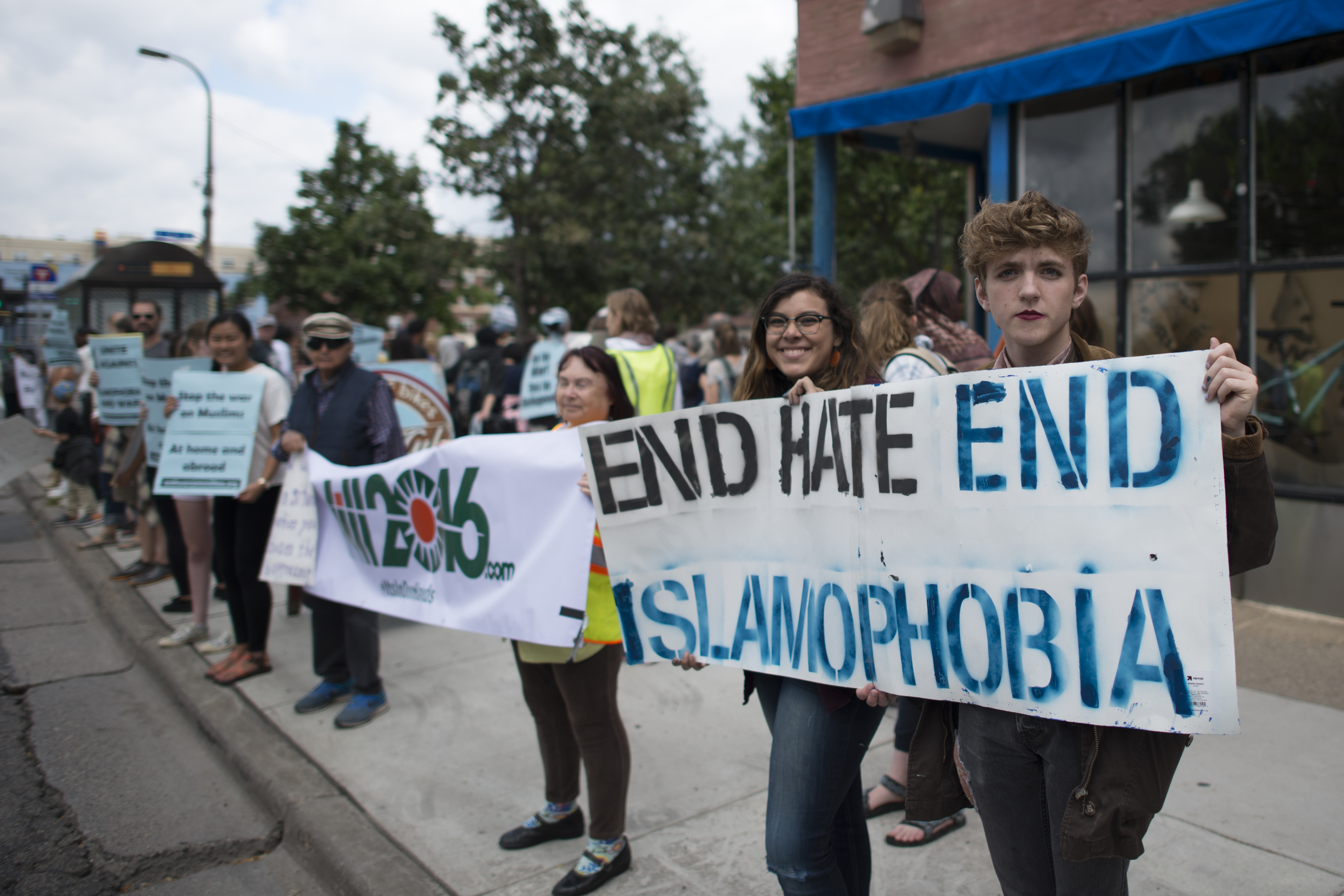 Minneapolis, Minnesota September 17, 2016 About 200 people gathered in east Minneapolis for a rally and march to to denounce hate speech and hate crimes against Muslims. They marched to a nearby Republican Party office to denounce the rhetoric of GOP presidential candidate Donald Trump. Protesters also denounced government surveillance of the Somali community. 2016-09-17 This is licensed under a Creative Commons Attribution License. Give attribution to: Fibonacci Blue